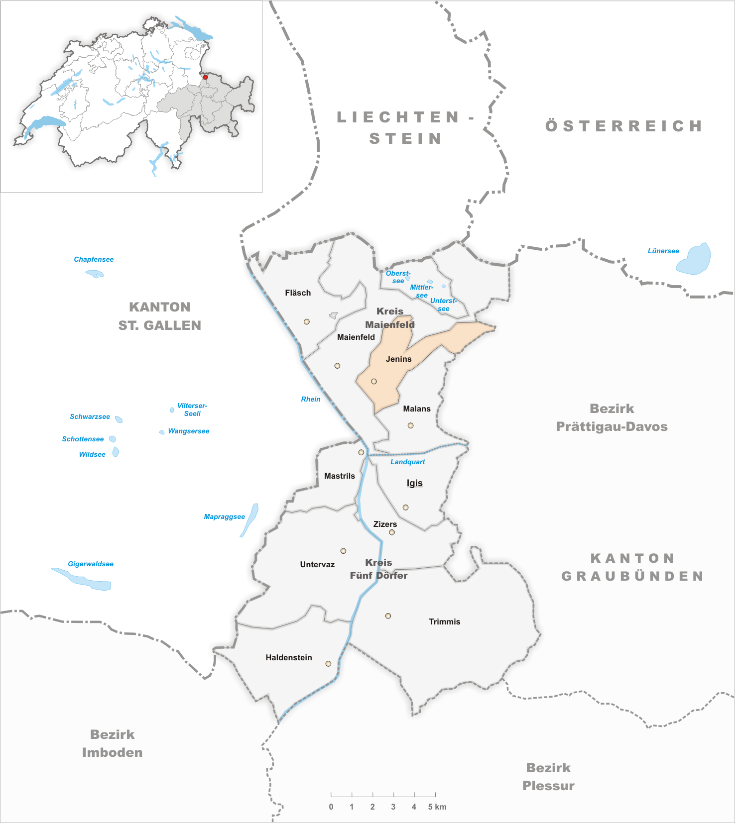 Municipality Jenins